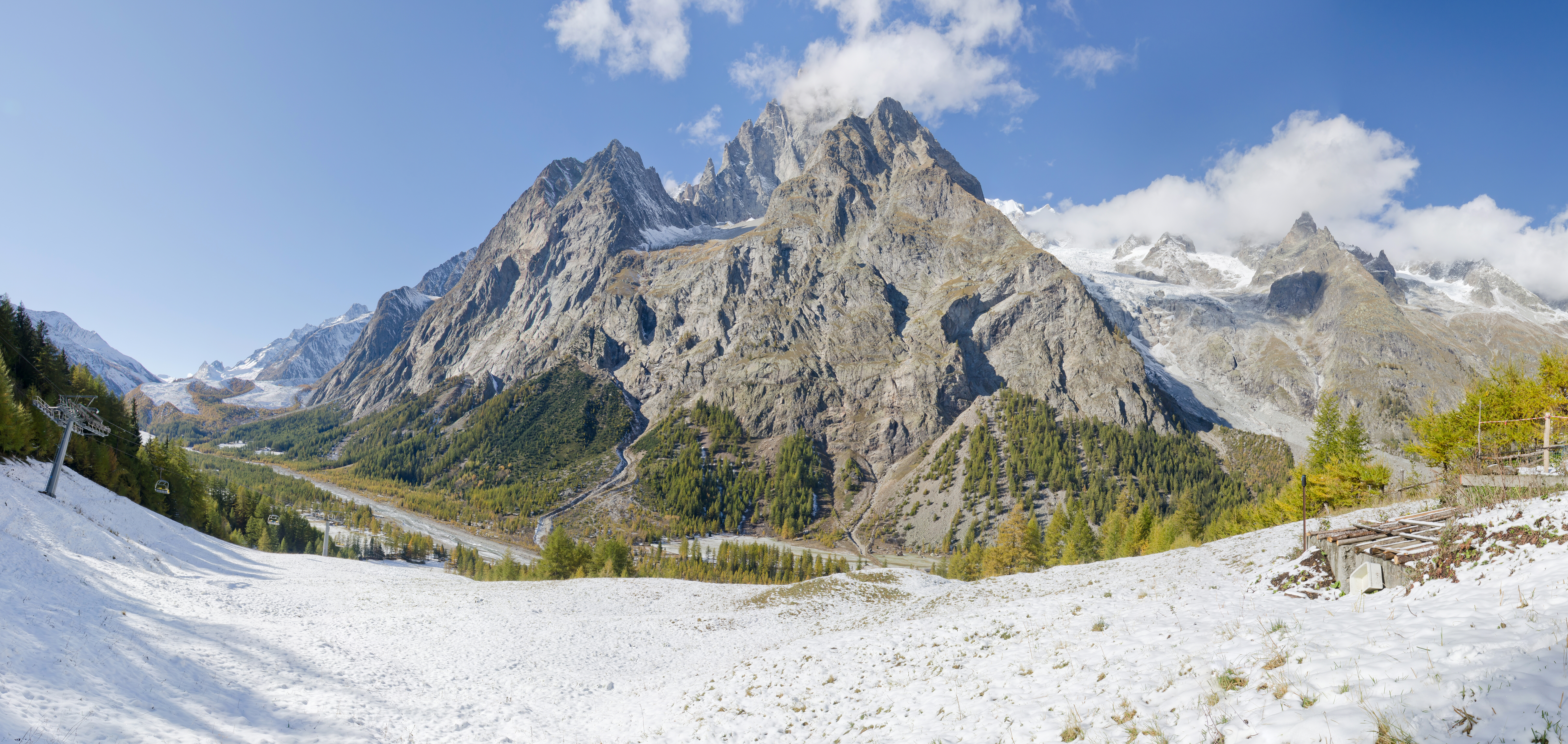 A panoramic view towards Mont Blanc after the first snow of the 2011/2012 winter. Taken from Rifugio Monte Bianco (Mont Blanc Refuge), west of Courmayeur. The summits of Mt Rouge de Peuterey (2941 m) on the left, and Mt Noir de Peuterey (3014 m) on the right frame the famous south ridge of the Aiguille Noir de Peuterey. The summit of Mont Blanc itself is not visible from this perspective, and is a further 2.8 km away, well behind the Aiguille Noir de Peuterey (3772 m), and then the Aiguille Blanche de Peuterey (4112 m), which is also not visible. The lower tongue of the Glacier de la Brenva is visible to the right of the picture